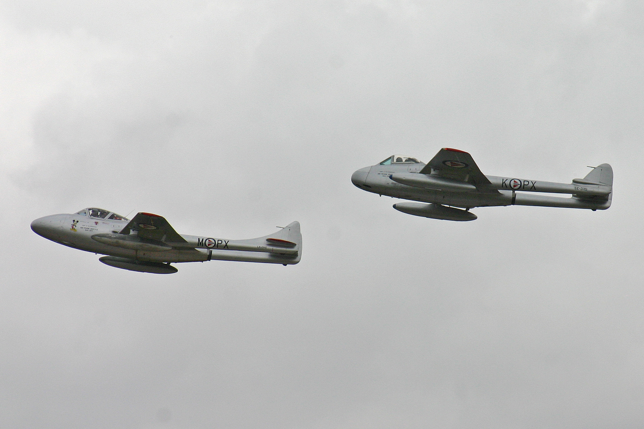 Pair of Norwegian Historic flight Vampires. T55 'PX-M' (LN-DHZ) actually ex Swiss AF 'U-1230' msn 990. and FB6 'PX-K' (SE-DXS) actually ex Swiss AF 'J-1196' msn 705. Departing RIAT Fairford. 18-7-2011